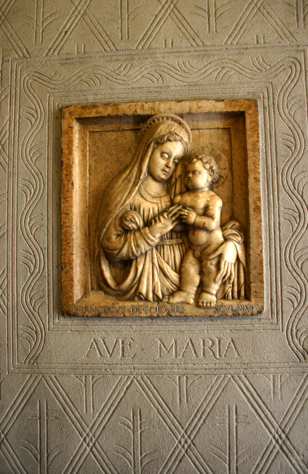 Francesco Solari (1415 ca.–1469), relief of Madonna and Child, in the side entrance hall to Sant'Angelo church in Milan, Italy. (The graffito decoration is from the 19th century). Picture by Giovanni Dall'Orto, April 11 2007. Senza flash. Col flash.